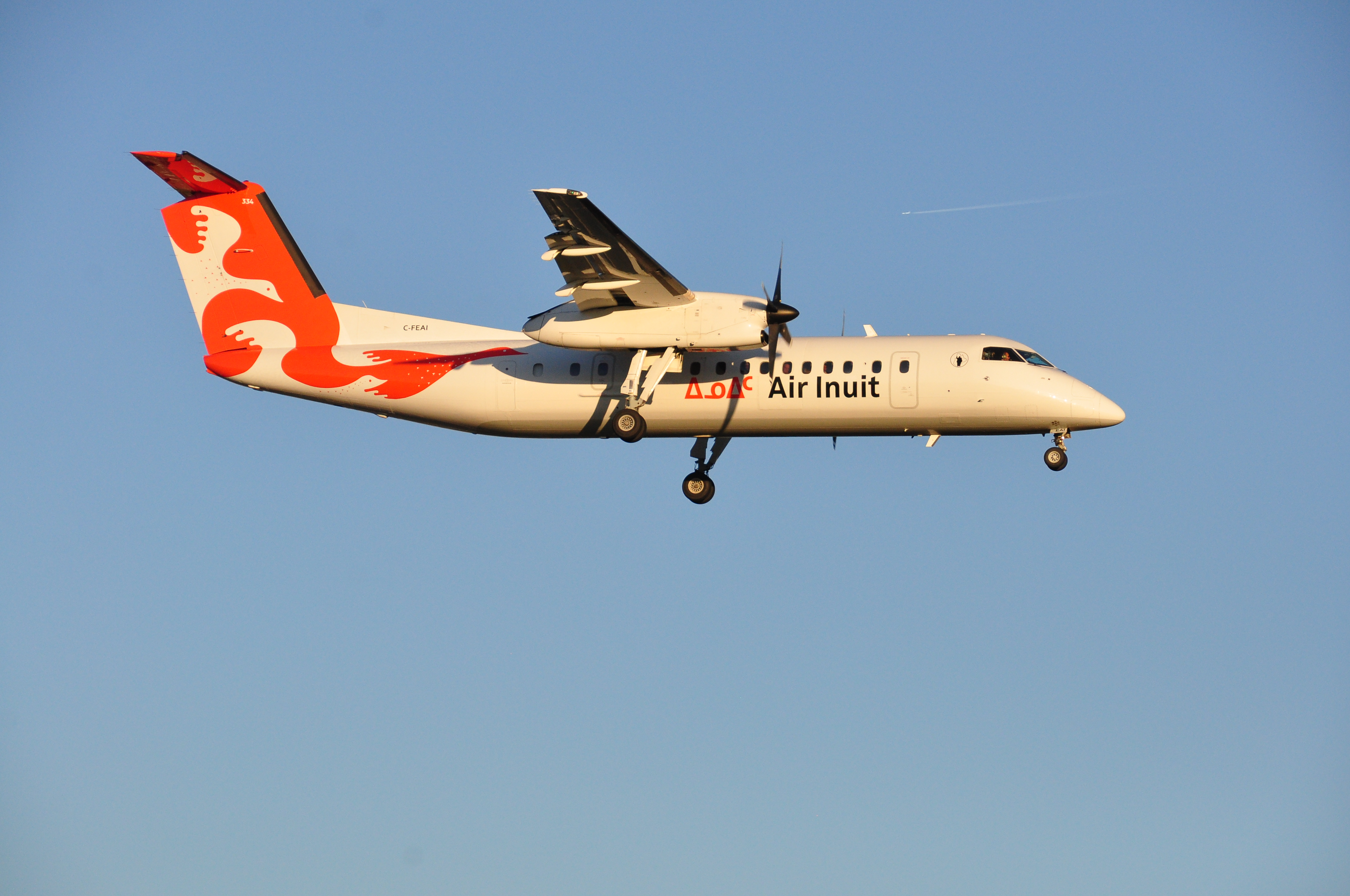 Air Inuit Dash 8-300Q on final approach at Montréal-Pierre Elliott Trudeau International Airport